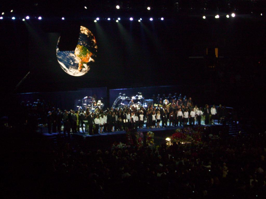 Michael Jackson memorial service